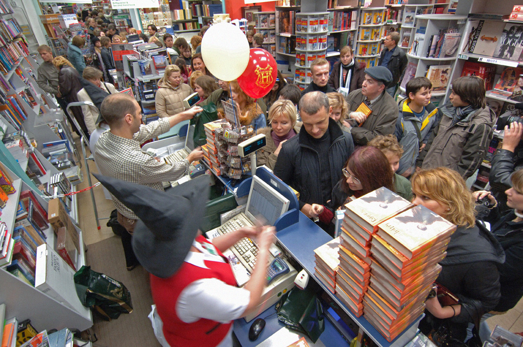 “The seventh book about Harry Potter goes on sale”. The seventh book about Harry Potter in a Russian translation "Harry Potter and the Gift of Death" went on sale at the bookstore Moskva in Moscow on October 13.